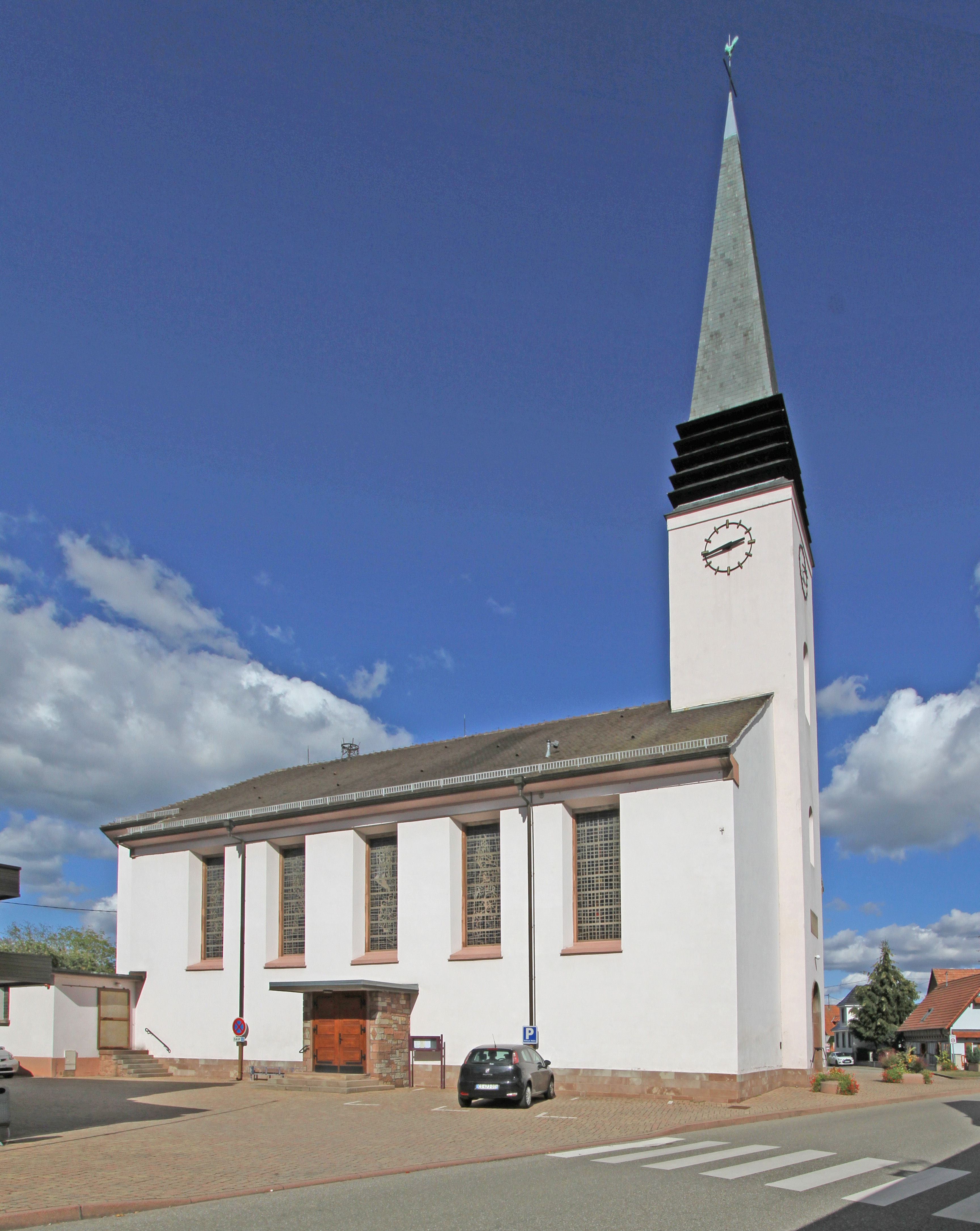 Church of St. Wendelin in Rohrwiller.